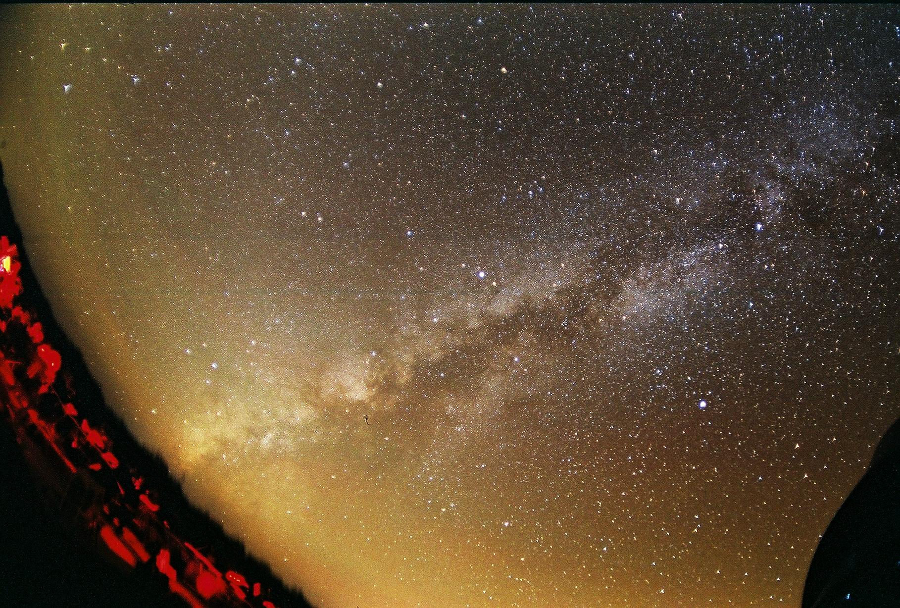 In going back through archives on an old computer, I found a cache of 35mm color-film images I'd made at the inaugural Eldorado Star Party in west Texas. This was made with a Zenitar 16mm F2.8 fisheye lens affixed to a Pentax MX 35mm film SLR, which was piggybacked on a 6" Celestron refractor driven (unguided) by a CI-700 equatorial mount. I think the exposure was about 1 minute and the film was Fujicolor at about ISO 800. Notice the dust lanes in the Milky Way show up nicely. The skyglow along the horizon was caused by reflections from dust in the air, as it had been very windy near sunset. The local time was about an hour past sunset. "Down" in the photo is to the lower left corner. Due to distortion of the stars by the extremely short focal-length of the lens, this is best viewed Medium rather than Large or Original. This was taken October 23, 2003. It's my seventh photo to reach 800 views , fifth to reach 900, fourth to reach 1,000, third to reach 1,250 views, and second to reach 3,000 views on Flickr! Also, my first to reach 20 and 30 Favorites (thanks!). Image file: ESP-milkyway4.jpg